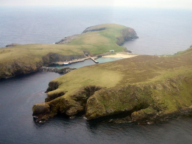 Aerial view of North Haven, Fair Isle. A slightly misty picture of Bu Ness and the harbour taken from the Loganair Islander as it came in to land.